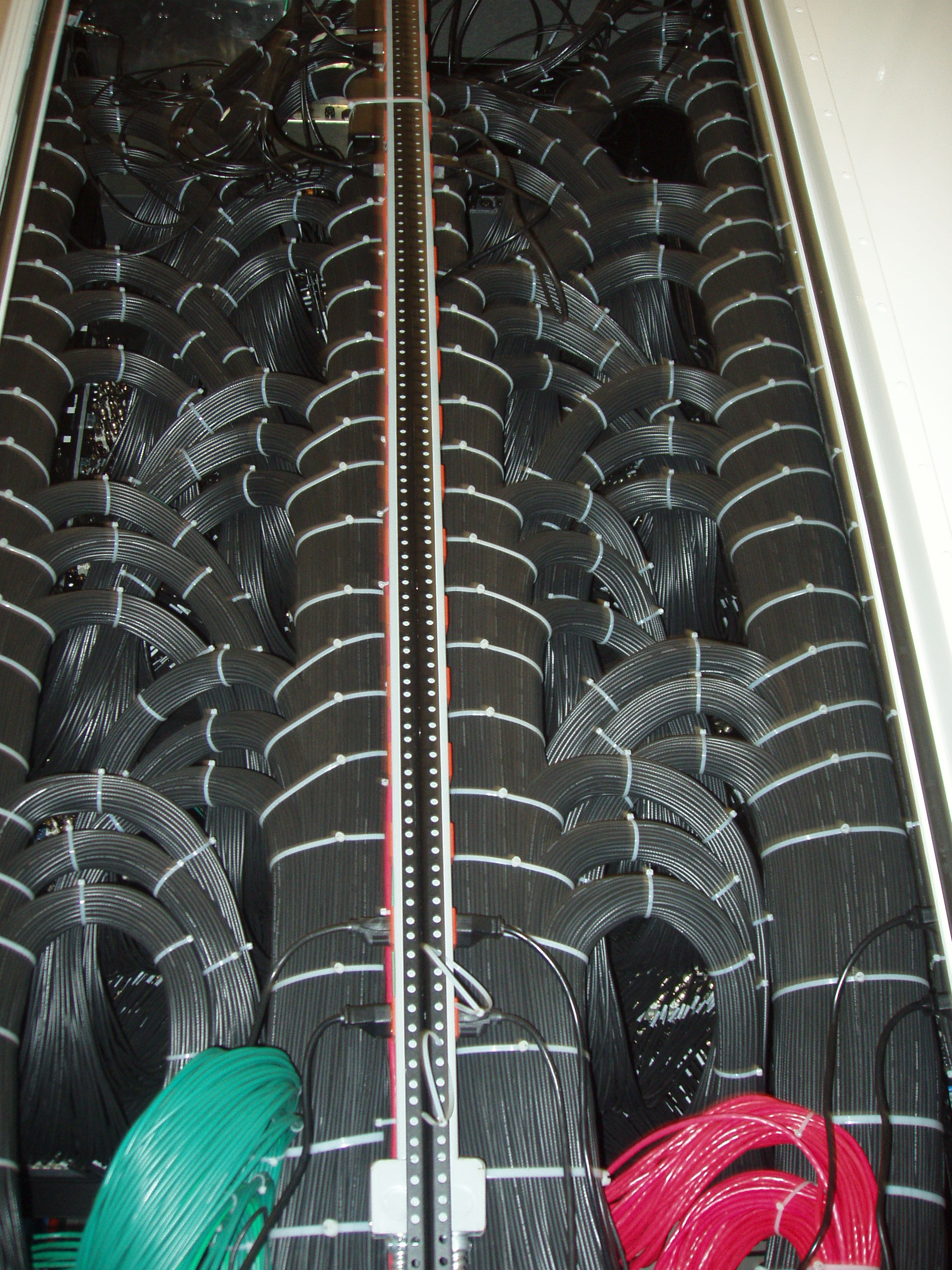 This is the view of a jackfield from the rear. Cable dressing is critical in order to maintain neatness, small size, and reduce interference.